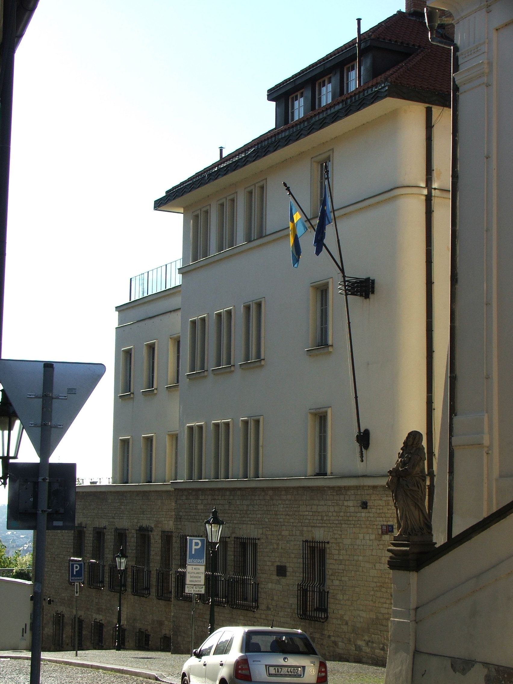 Embassy of Sweden in Prague, Czechia